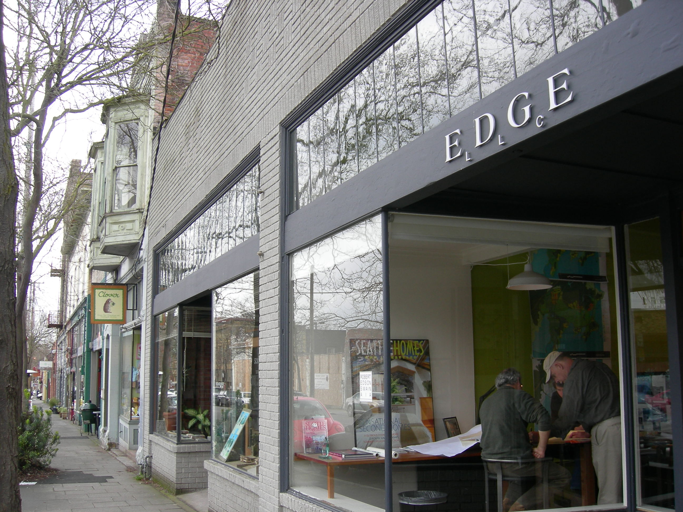 Architects' office (EDGE, LLC), Ballard Avenue (historic district), Ballard, Seattle, Washington.